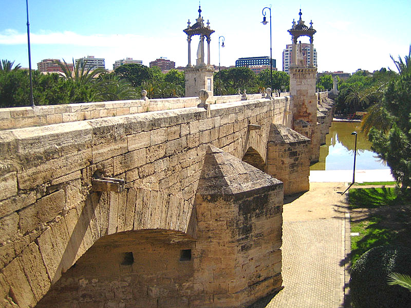 Pont de la Mar, a València. Pont de la Mar bridge in valencia, Spain